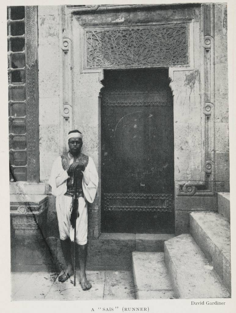 A man leaning against the wall next to a door.